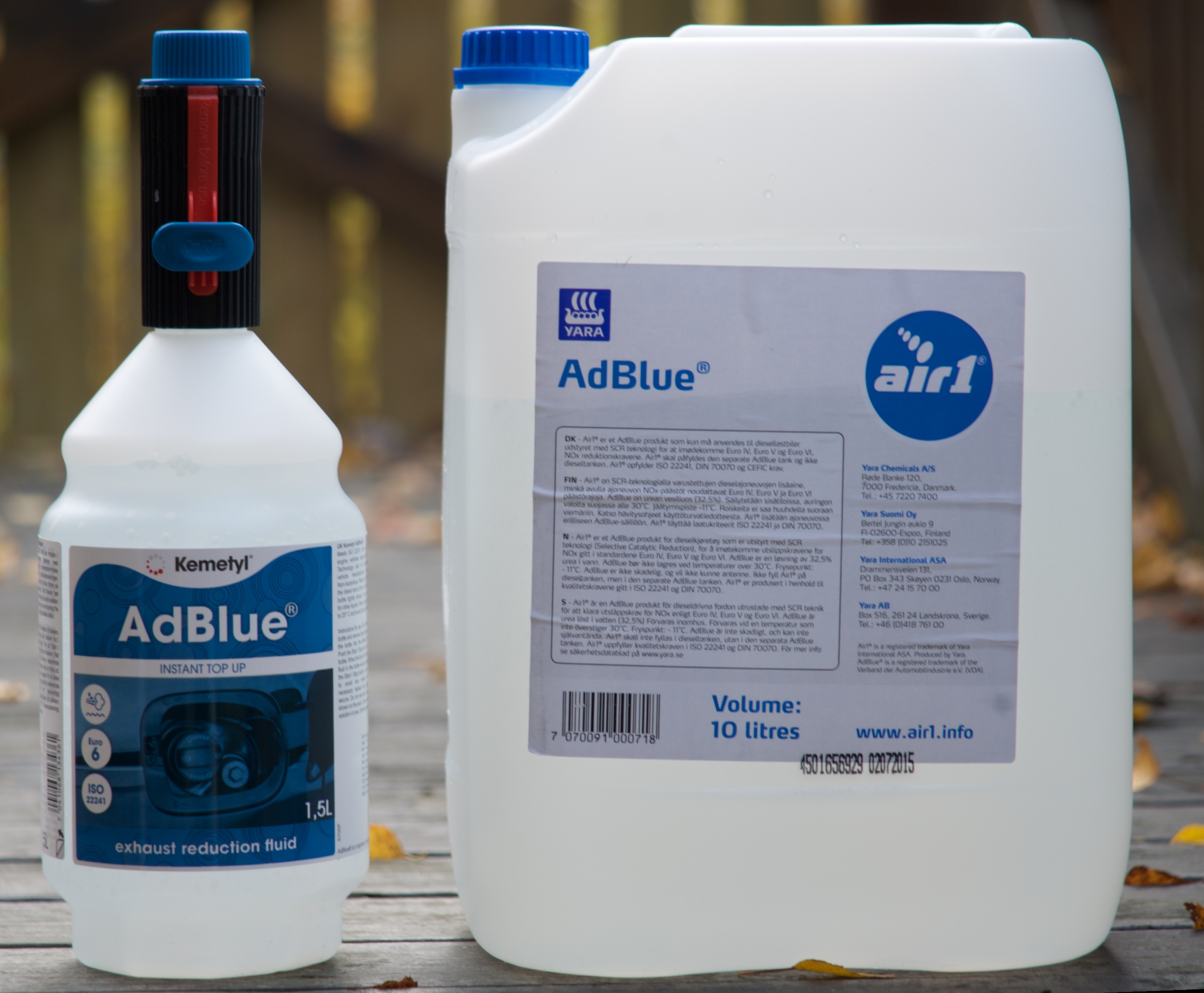 AdBlue, in 1.5 and 10 liter containers.